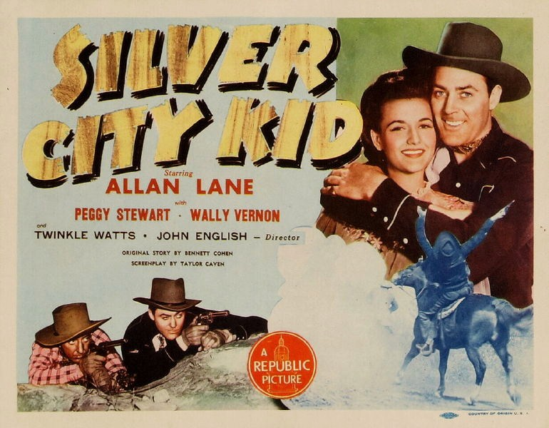 Poster for the american western Silver City Kid